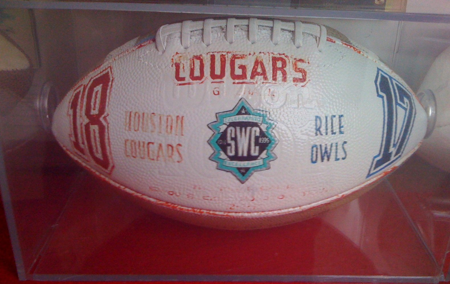 The game ball from the 1995 Bayou Bucket Classic played on December 2, 1995 at Rice Stadium. It was the last Southwest Conference football game. Houston defeated Rice 18-17. The ball is housed at the University of Houston in the Athletics/Alumni Center's Cougar Hall of Fame.